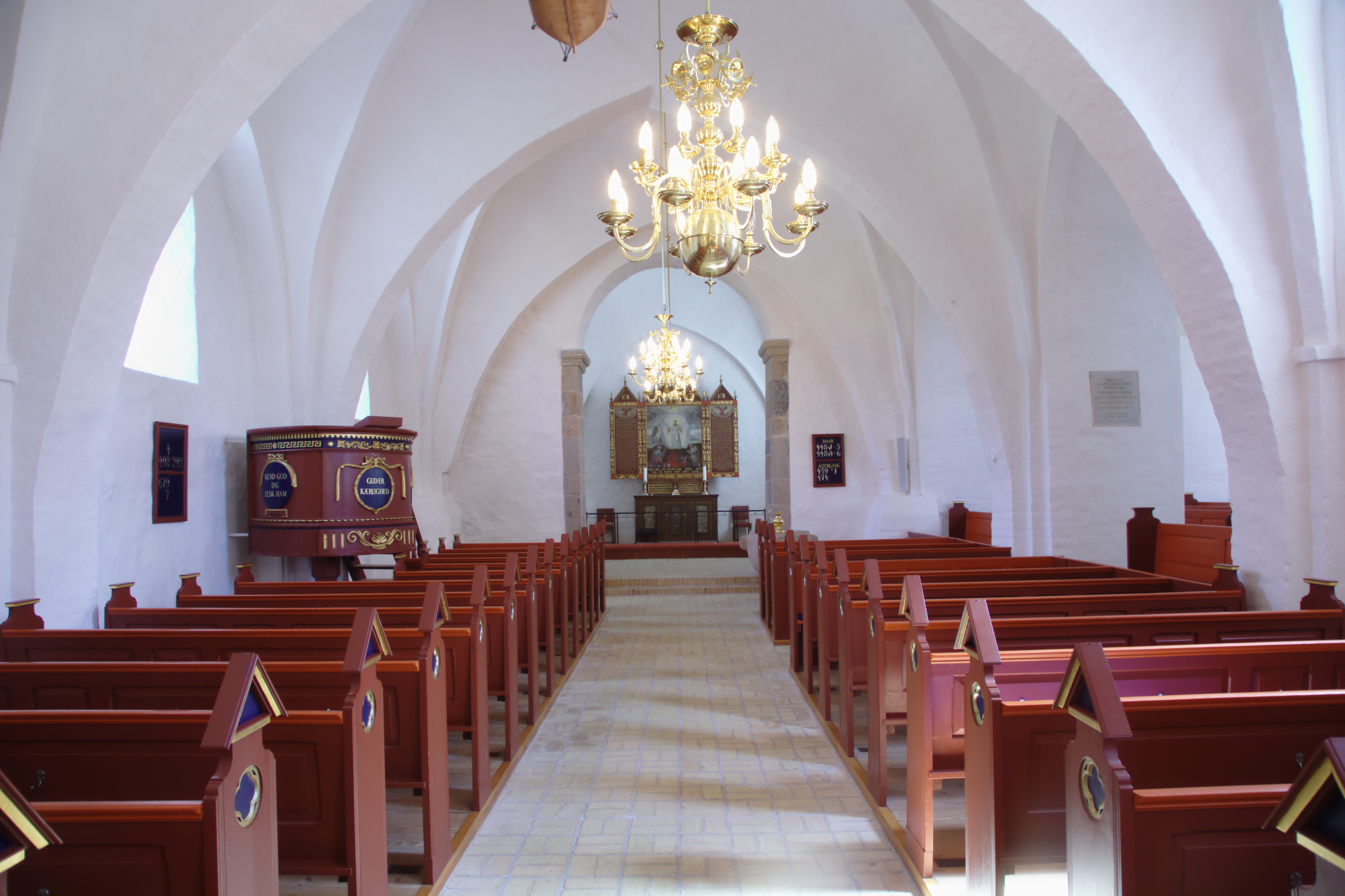 Gunderup Kirke just south of Aalborg, Denmark